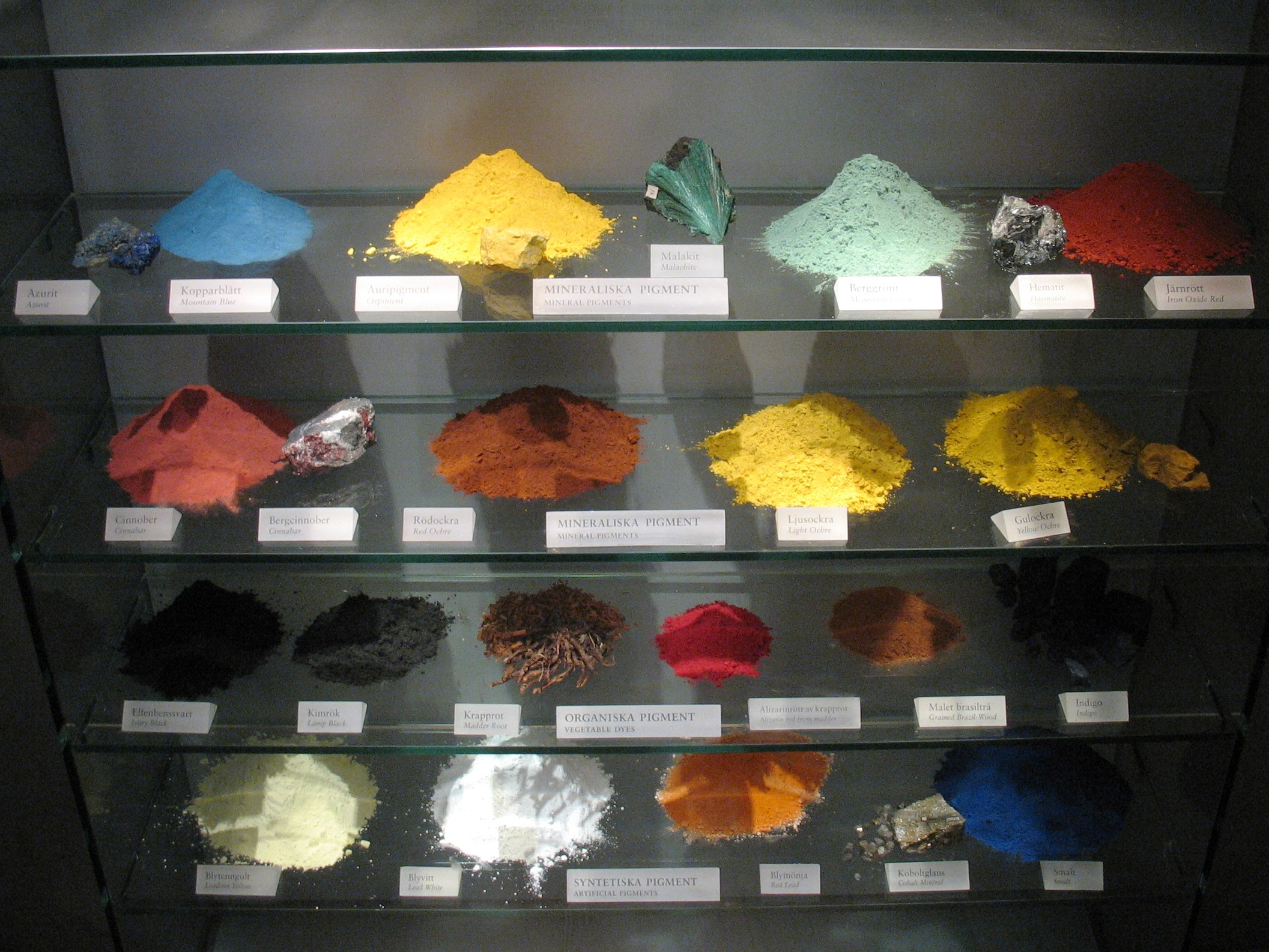 Display of the type of color pigments used to decorate 17th century warships, such as Vasa. Exhibit on display at the Vasa Museum in Stockholm.